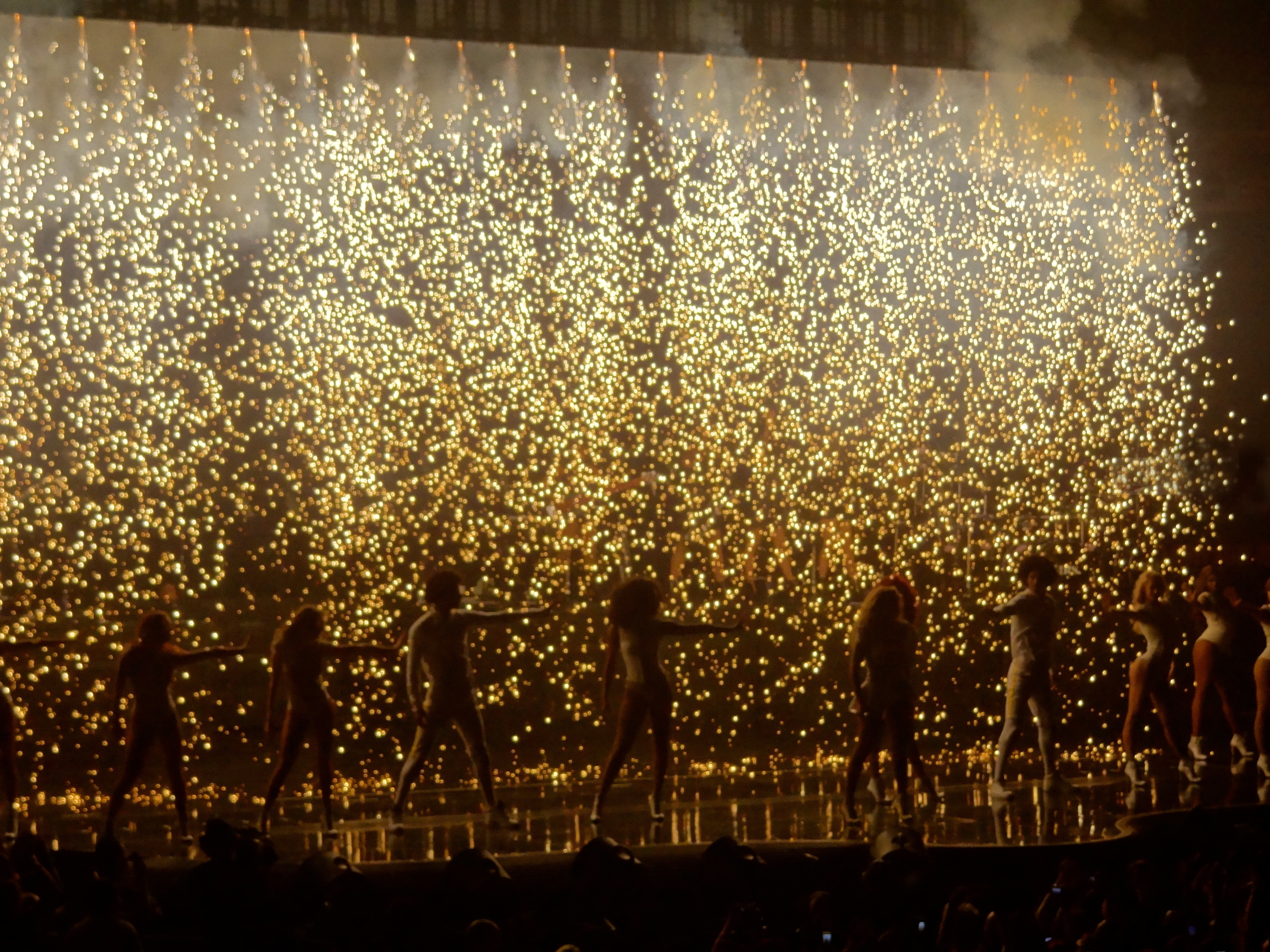 Beyonce performing Ebd if Tune at Montreal in 2013 during The Mrs. Carter Show World Tour.